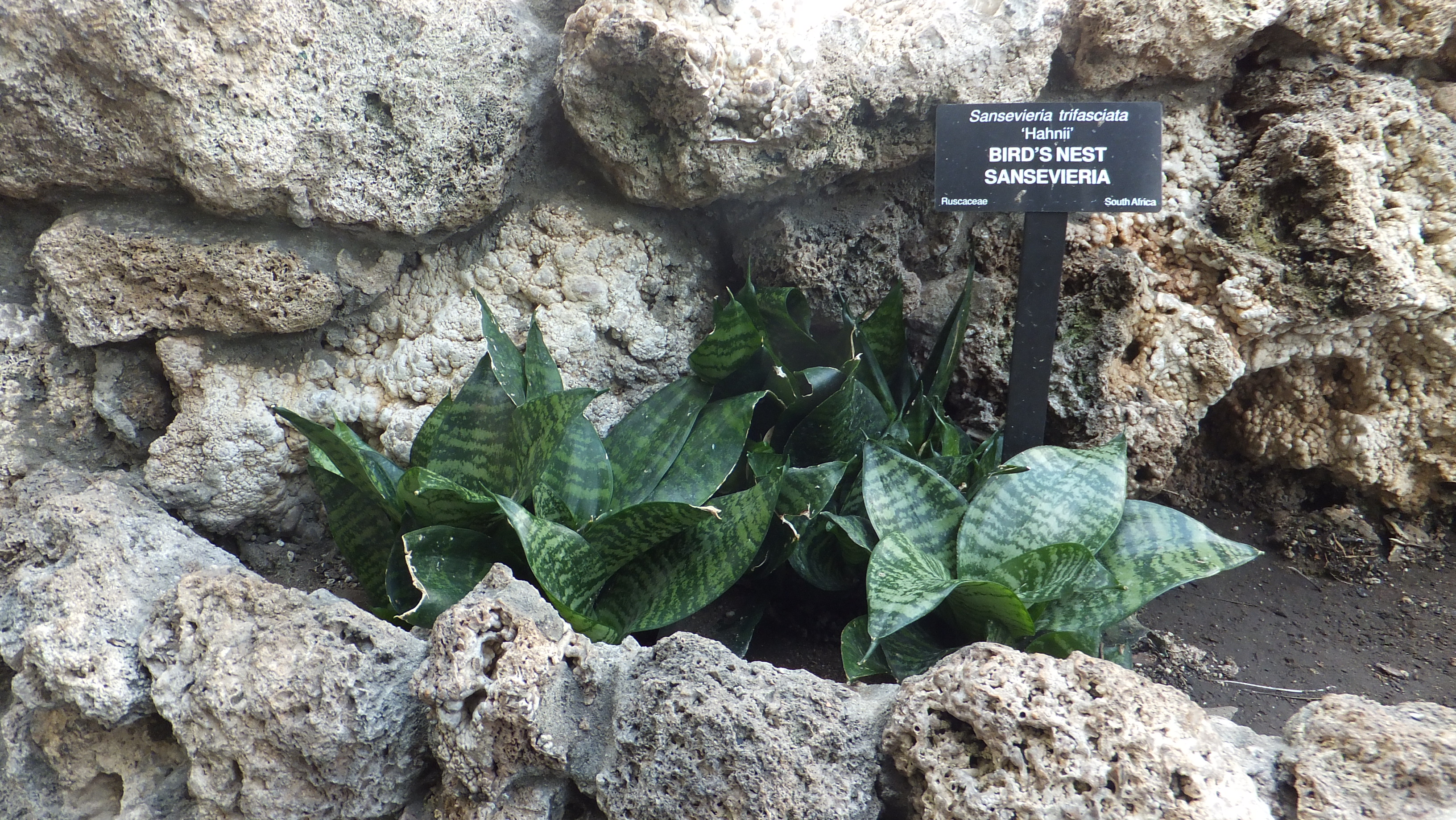 Bird's Nest Sansevieria